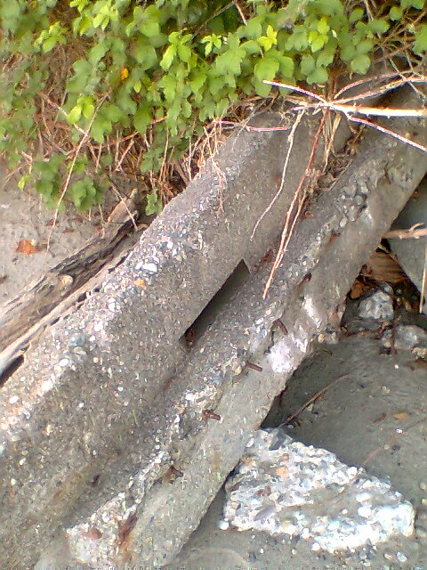 Galloping Gertie remains found on the beach below the Tacoma Narrows Bridge (Gig Harbor side). This piece of concrete was used to separate the roadway from the sidewalk. Rusted rebar prominent in the concrete section. This piece was from the salvage operation from 1942. The concrete roadbed was simply jackhammered to the ground below. Steel was used for wartime purposes. Photograph was taken by Tim Babcock.